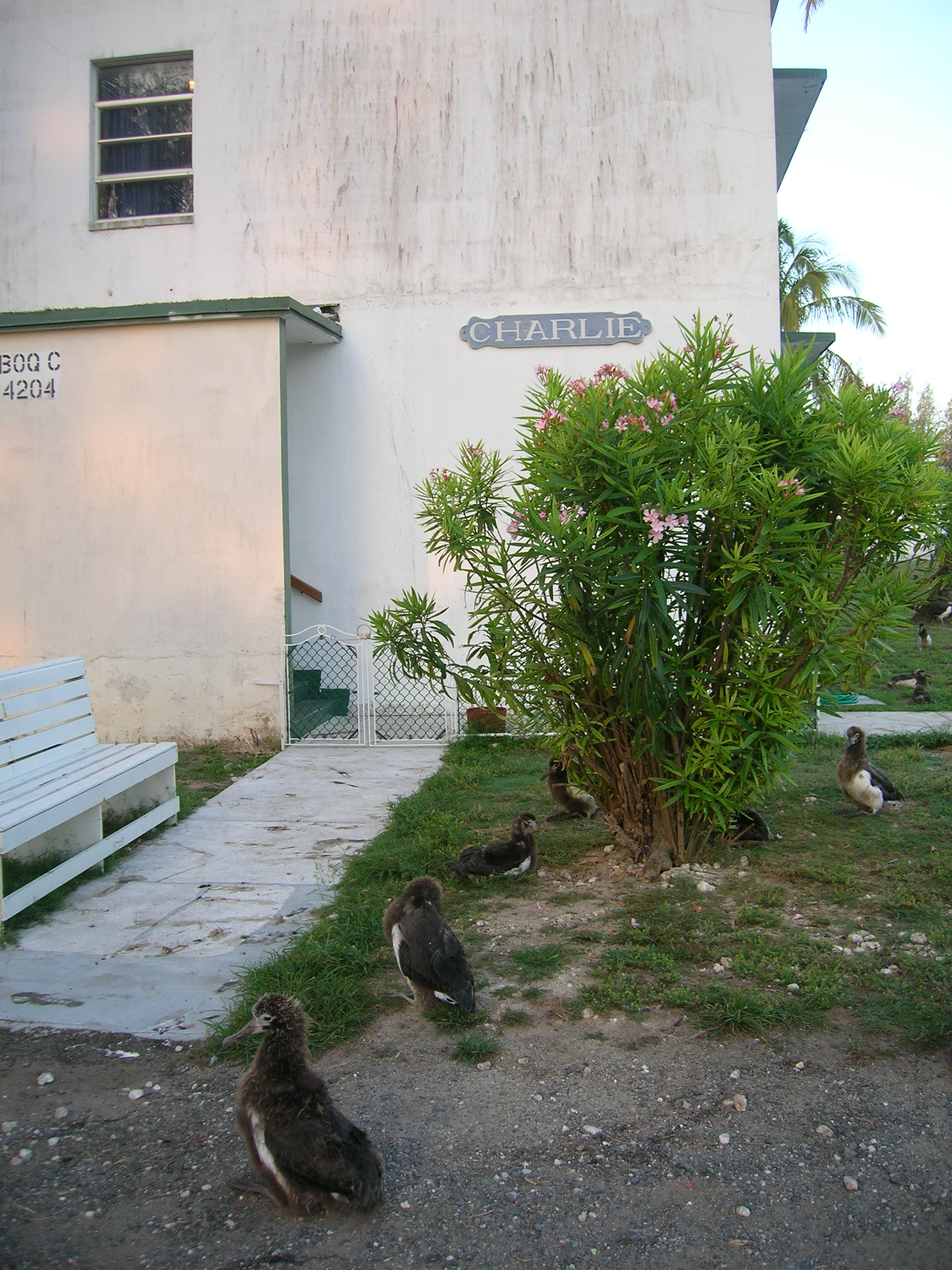 Nerium oleander (habit and Laysan albatross). Location: Midway Atoll, Charlie barracks Sand Island